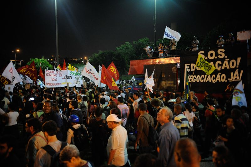 Protests during the World Fights against the Cup Day at Avenida Presidente Vargas, downtown Rio de Janeiro.